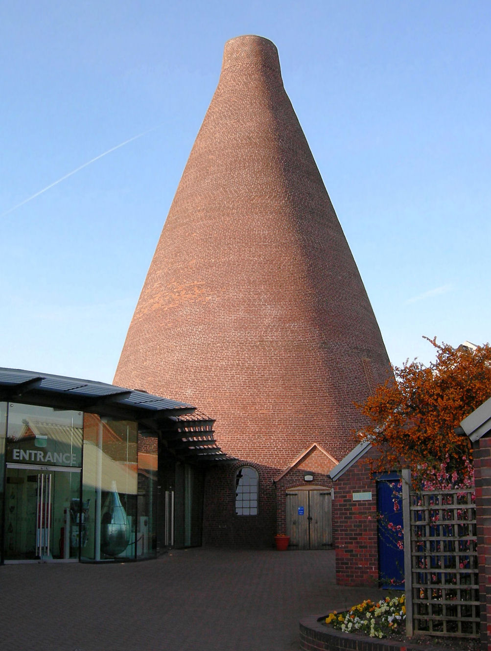 Redhouse Glass Cone, Wordsley, UK.